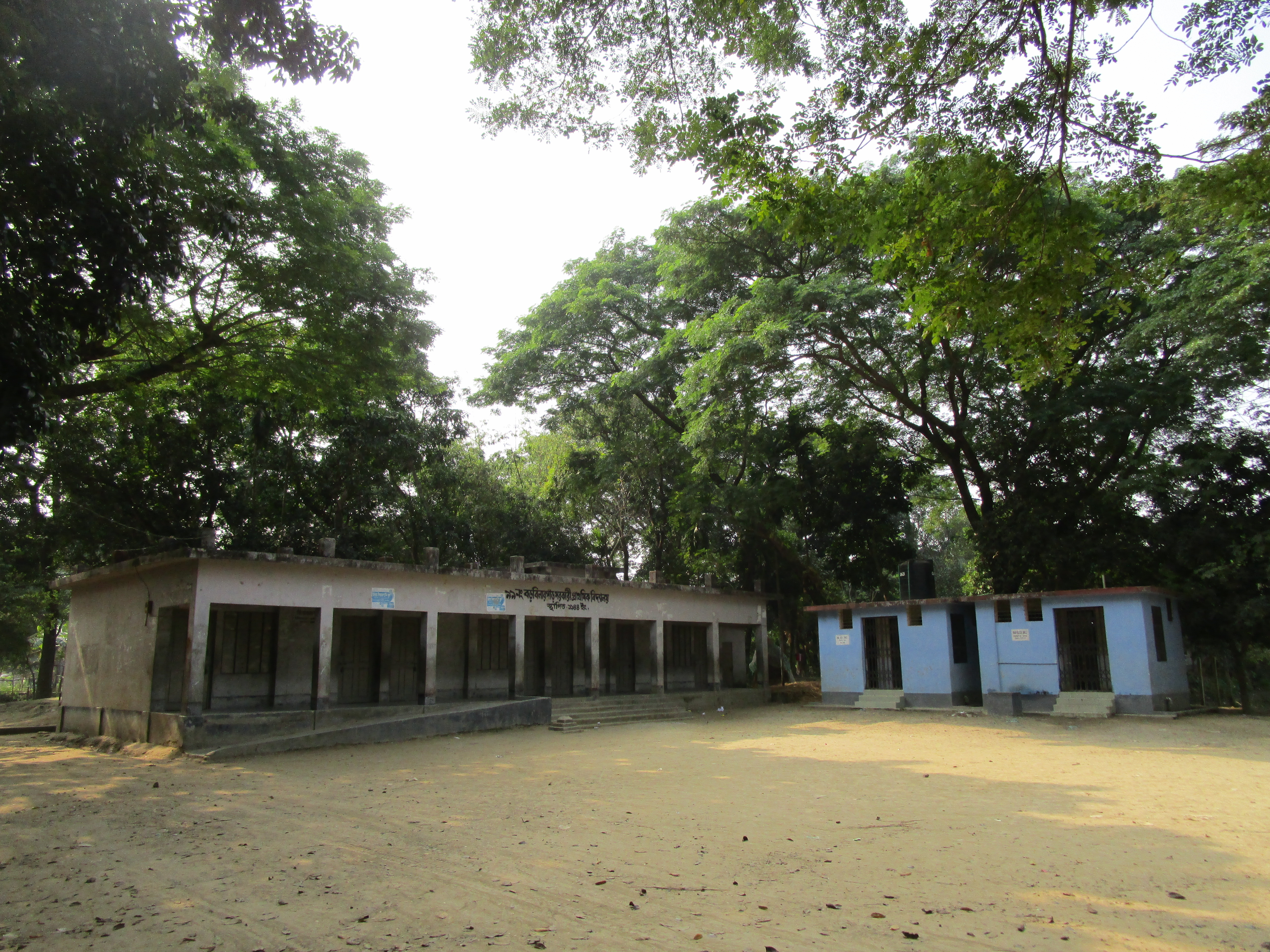 Borobilarpar Govt Primary School at Mymensingh Sadar Upazila.